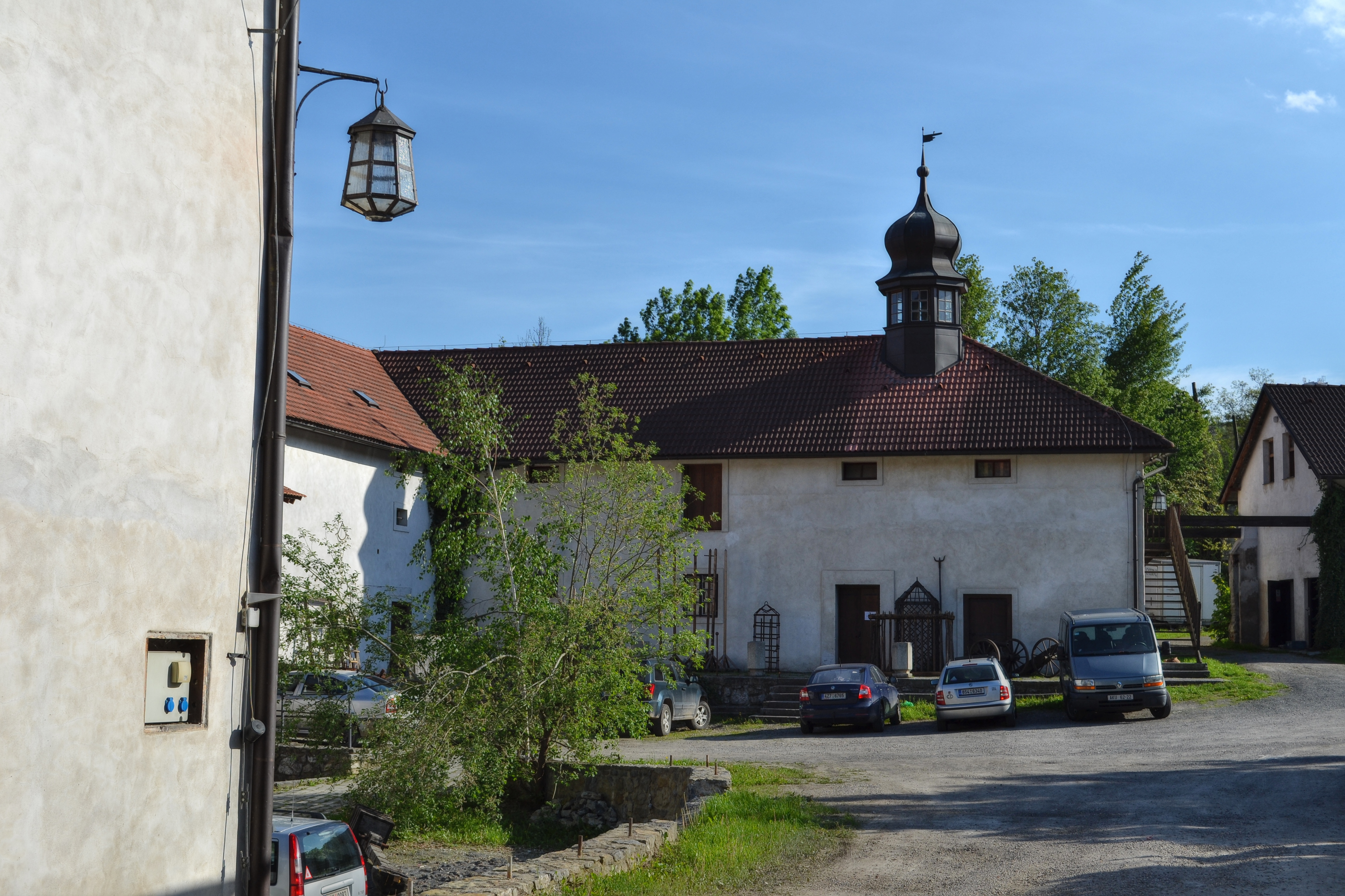 Cultural monument "zemědělský dvůr Hansfalkovský", Hlubočepská 4/35, Prague 5, Czech Republic.